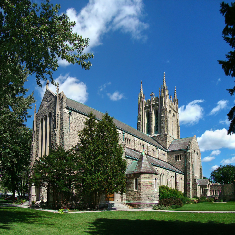 Ascension of Our Lord Catholic Parish, Westmount, Montreal region, Quebec, Canada.